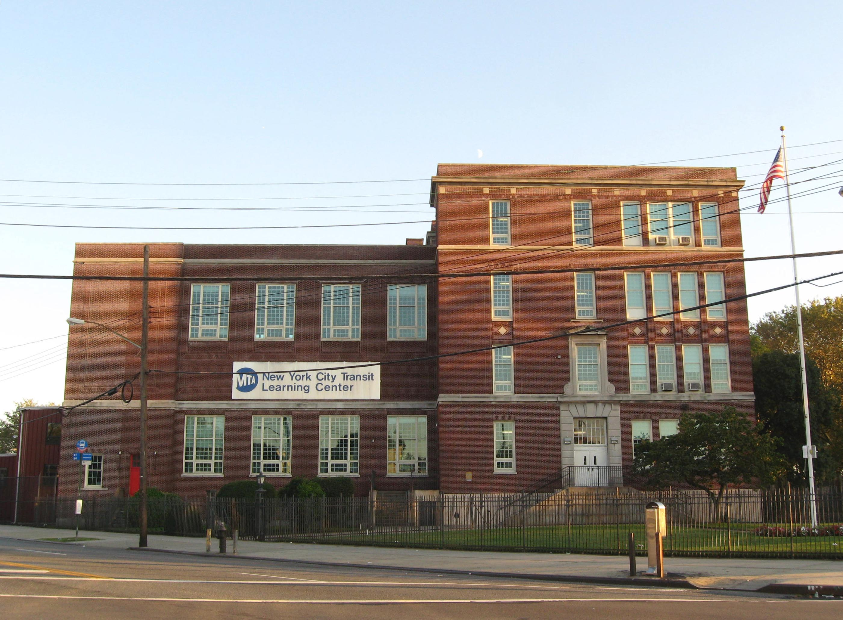 Looking southeast across 86th Street and Avenue U, at New York City Transit Learning Center in Gravesend, Brooklyn on a sunny late afternoon. Street address is 2125 West 13th, on the east side of the building. ZIP 11223.